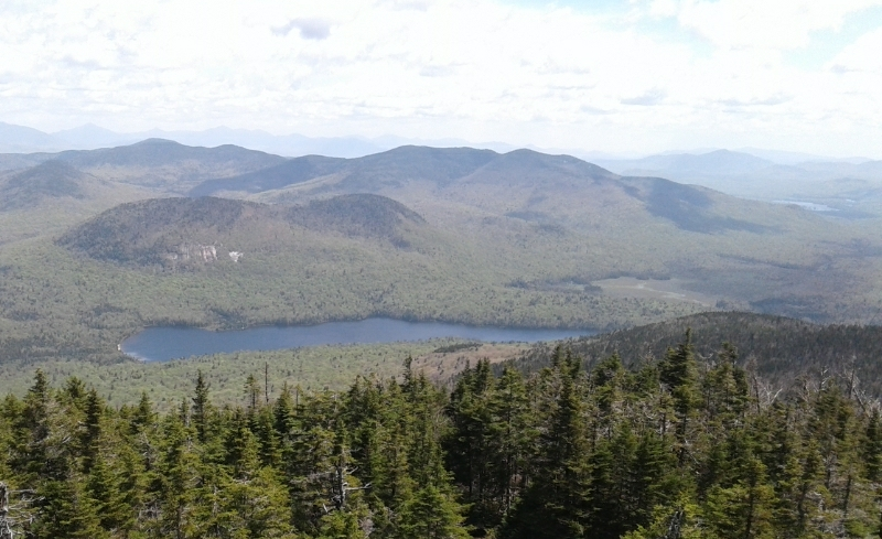 View of Tirrel Pond with Tirell Mountain (two small peaks directly behind pond), Dun Brook Mountain (top middle), Tongue Mountain (small mountain directly behind north peak of Tirell Mountain). Taken from top of Blue Mountain on May 26, 2019.